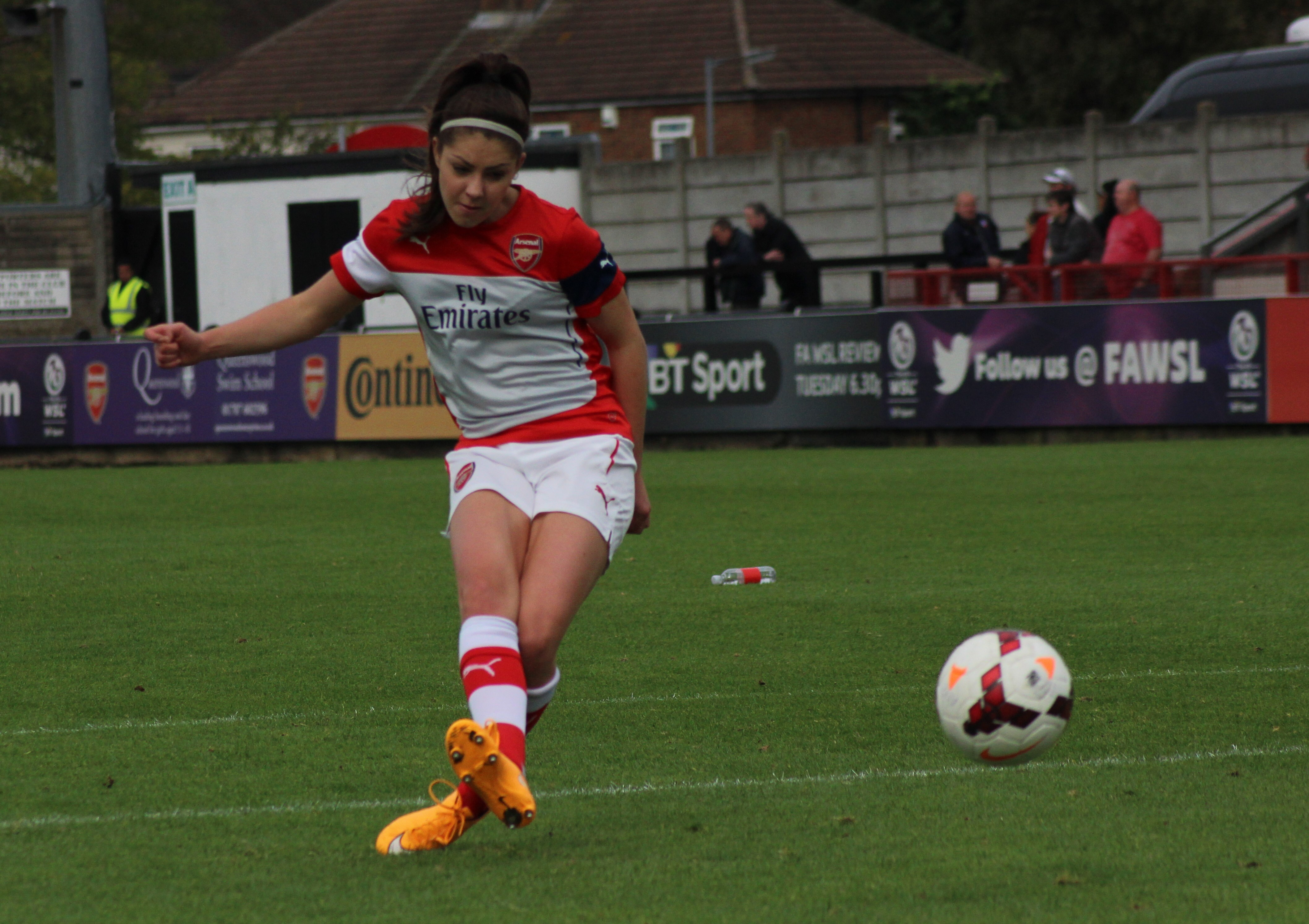 Carla Humphrey of Arsenal Ladies warms up before kick off